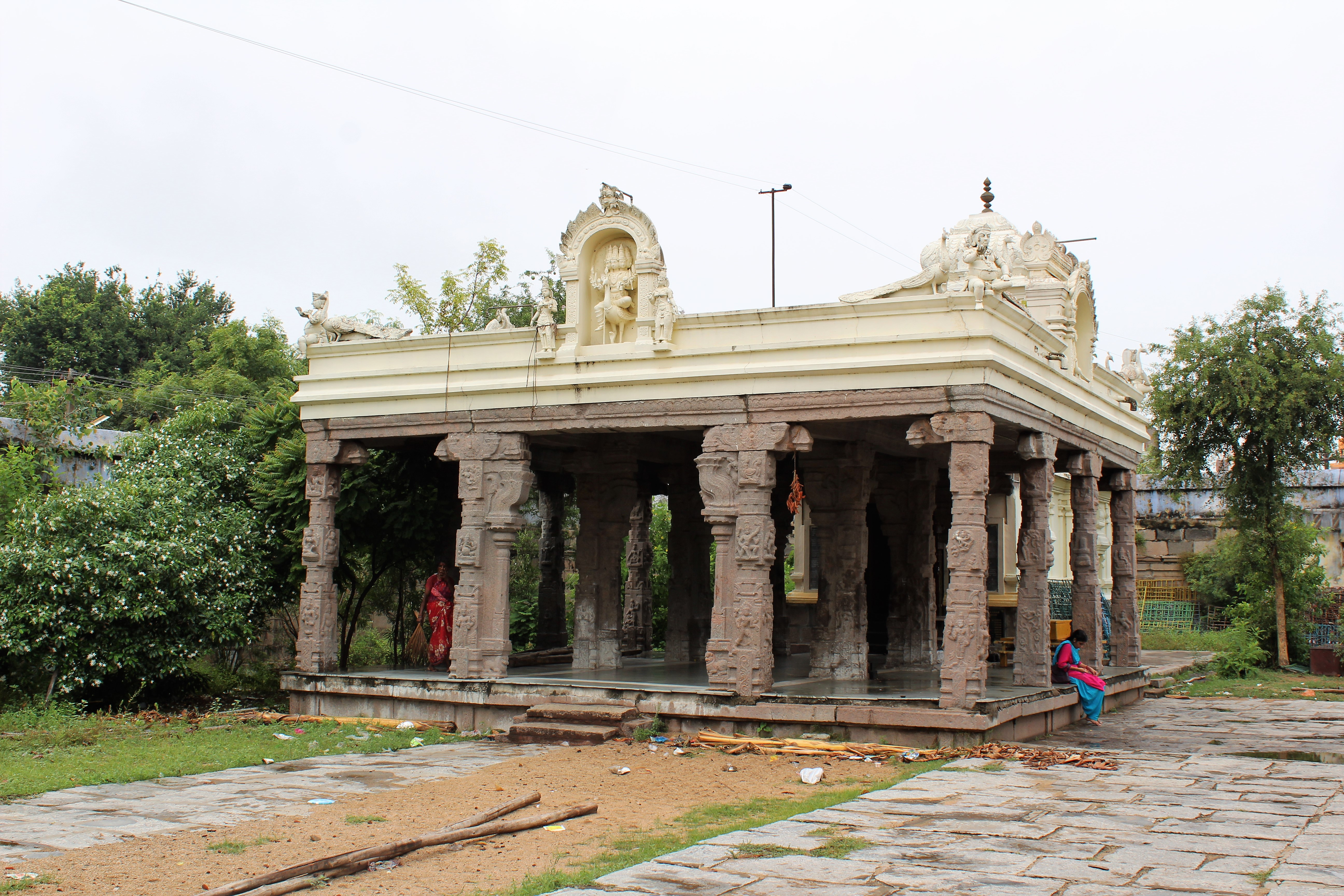 Jalandeeswarar temple, Thakkolam